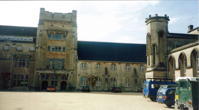 Downside School I am a former pupil!